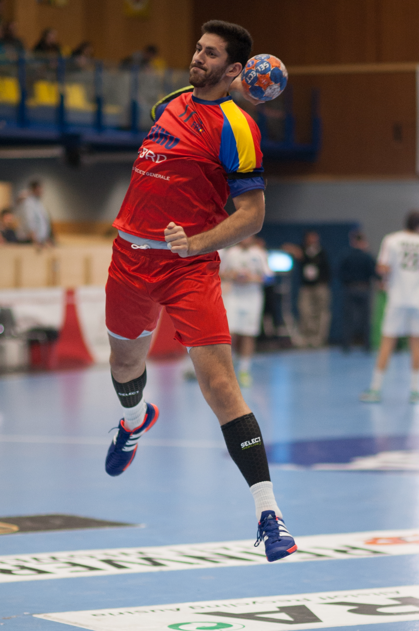 2017 Men's World Championship Qualification Europe Round 1, Austria vg. Romania, Maria Enzersdorf, Lower Austria, 2015-11-04